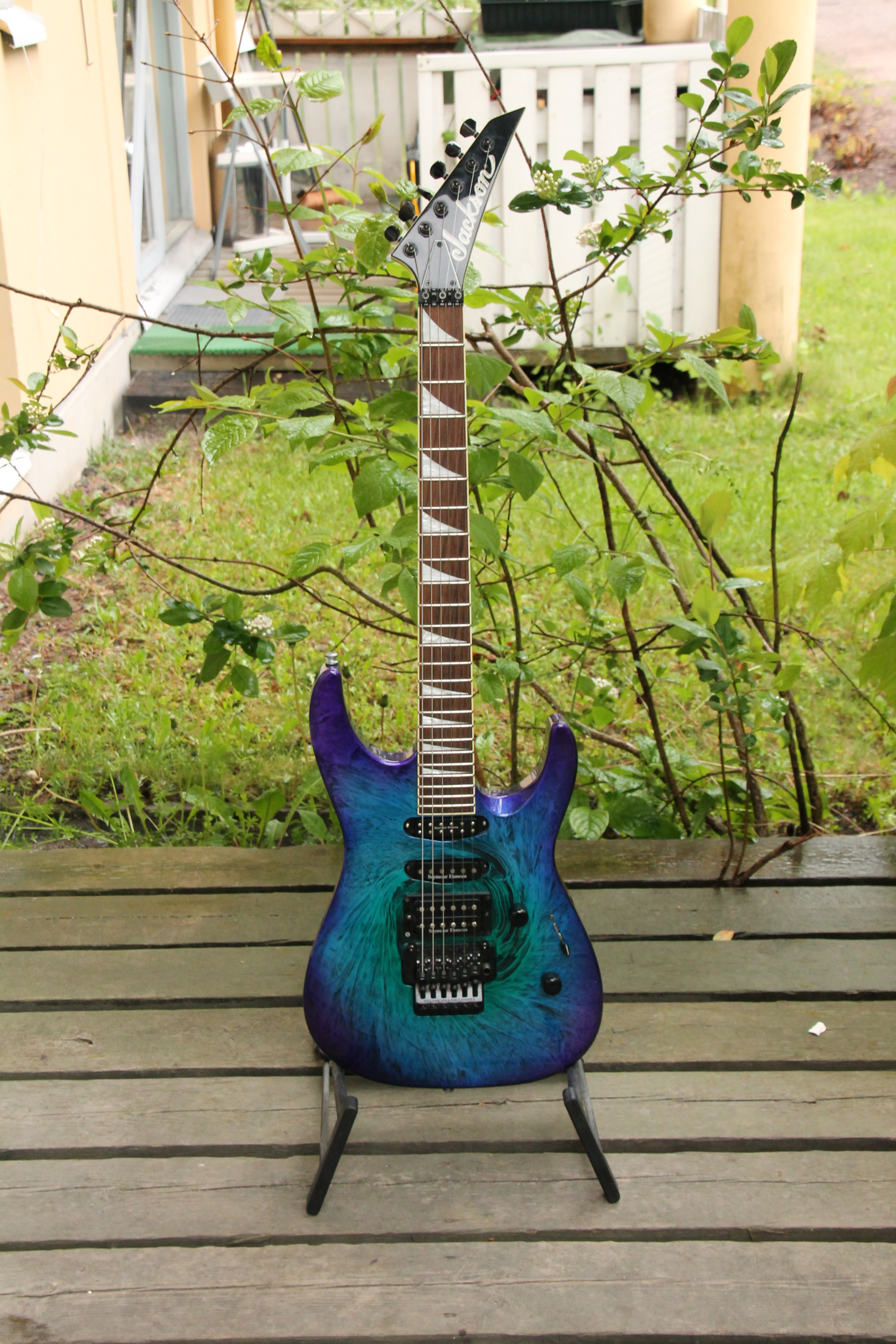 Jackson Dinky -electric guitar.